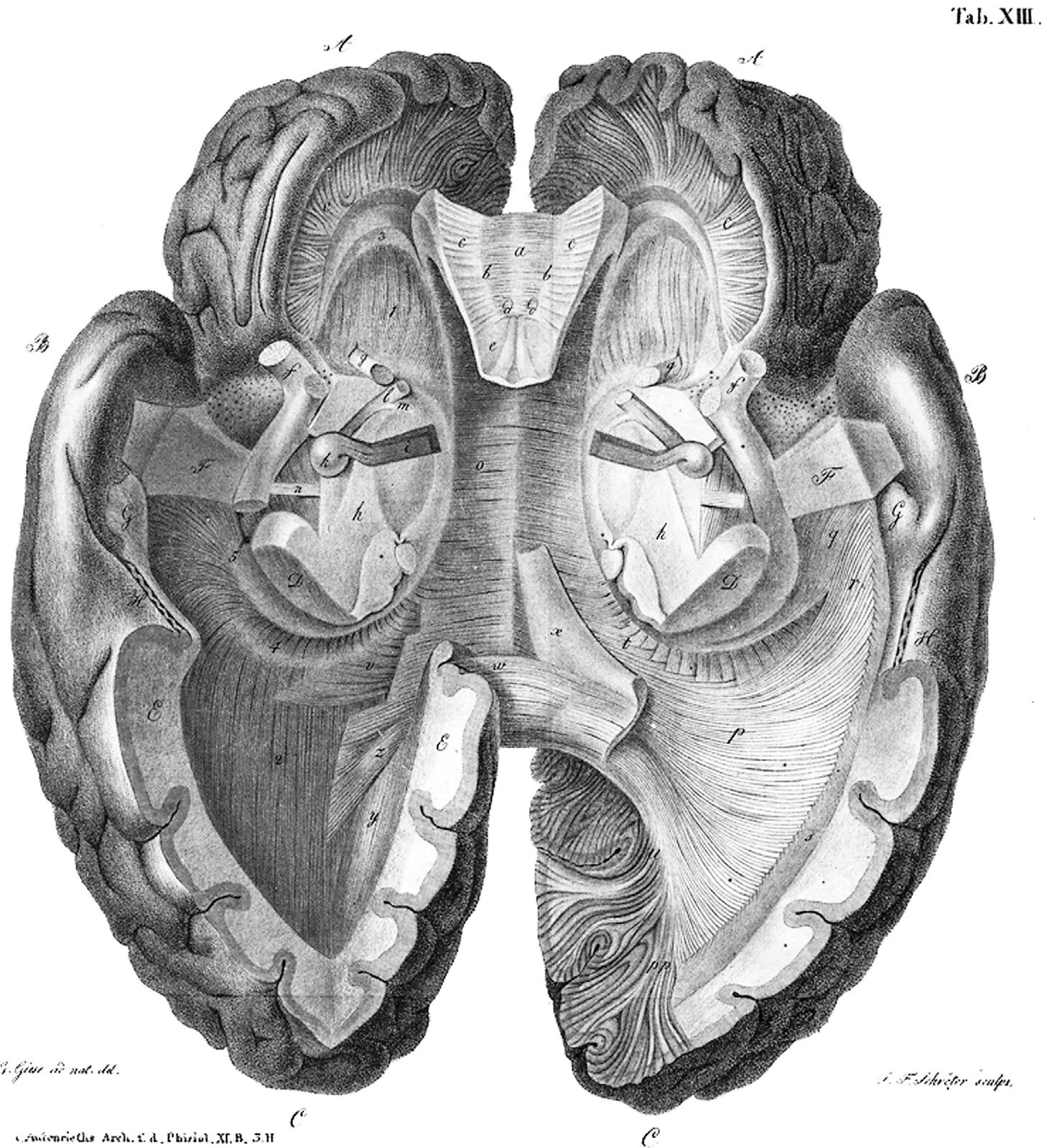 Johann Christian Reil’s depiction of his gross dissection of the human brain viewed from below. (Reil, 1812, volume XI, Tafel XIII).